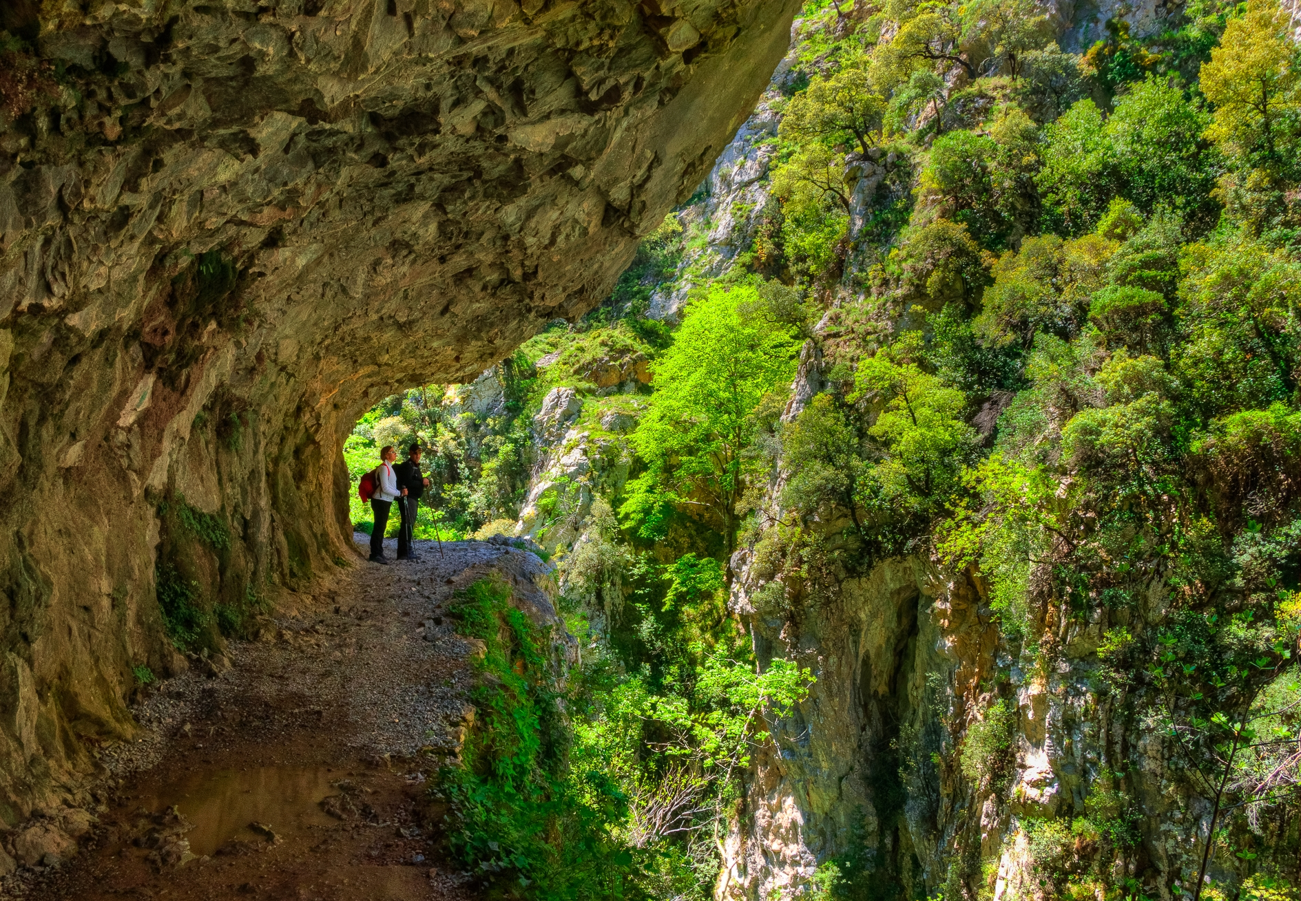 Picture along the Ruta del Cares